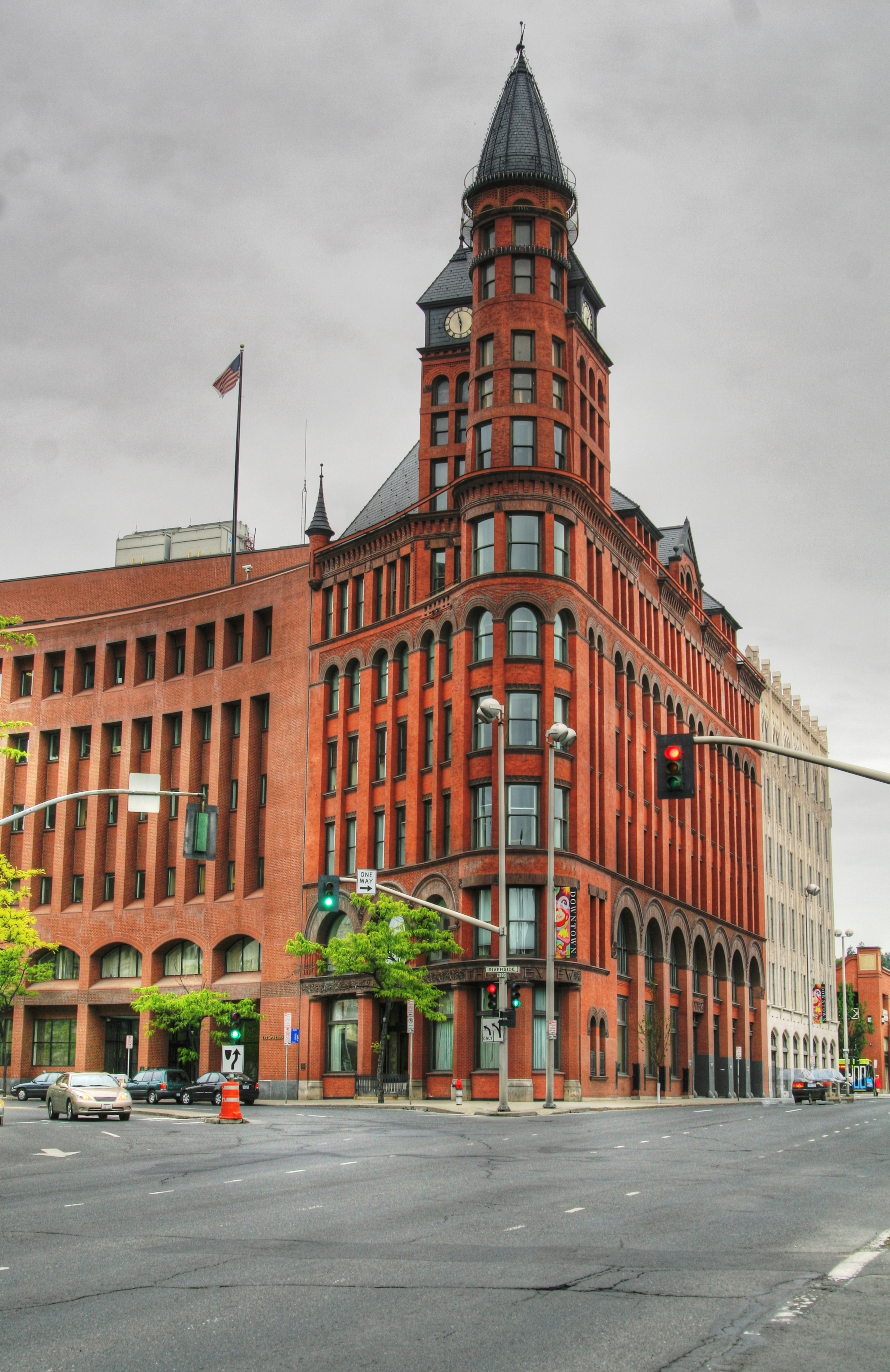 Review Tower Spokane, WA HDR composite, using Photomatix Pro. It's a cliche effect, but I love it so.